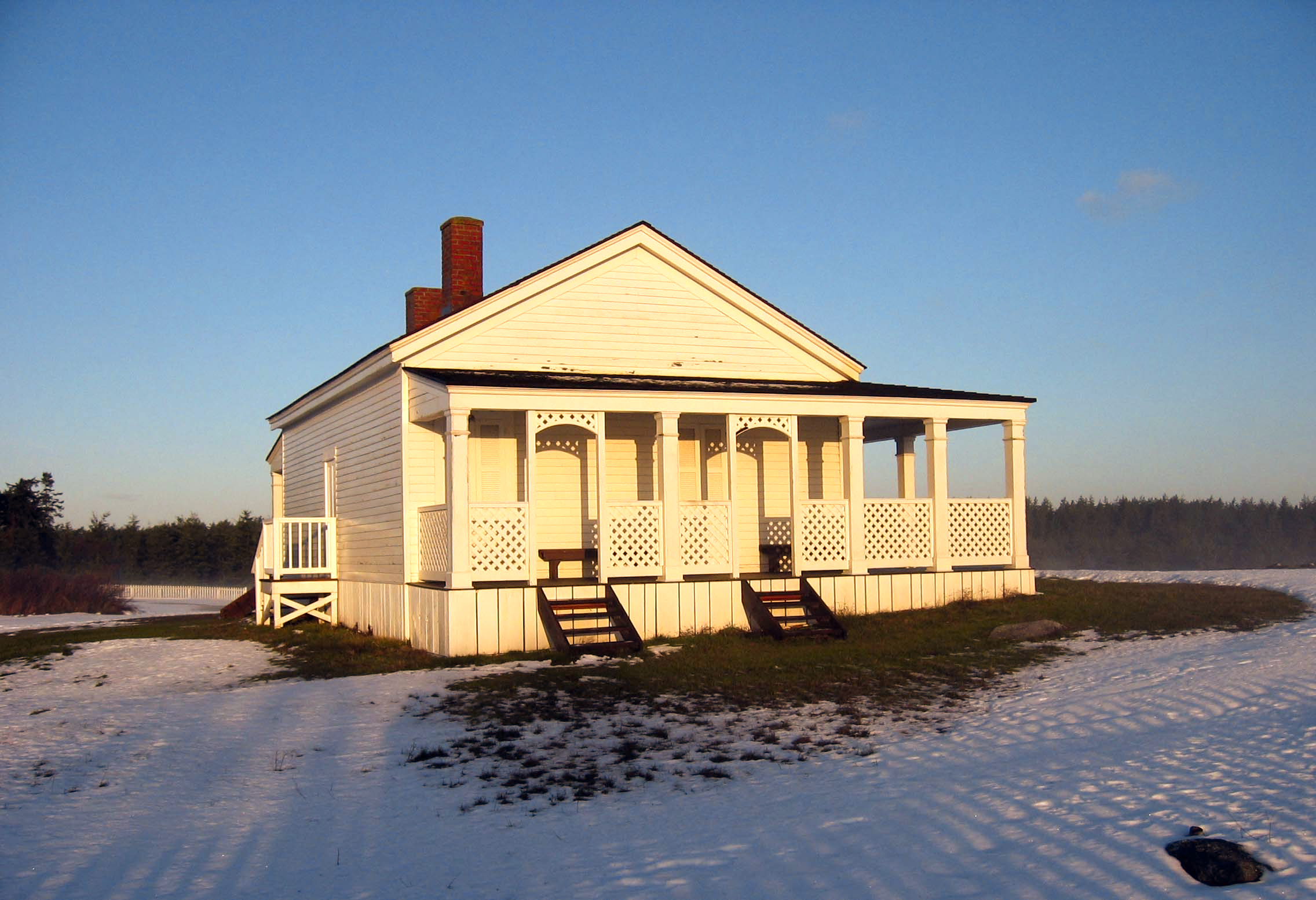 The Officer's Quarters at San Juan National Historical Park.